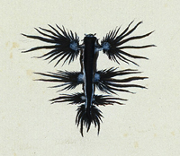 Glaucus atlanticus